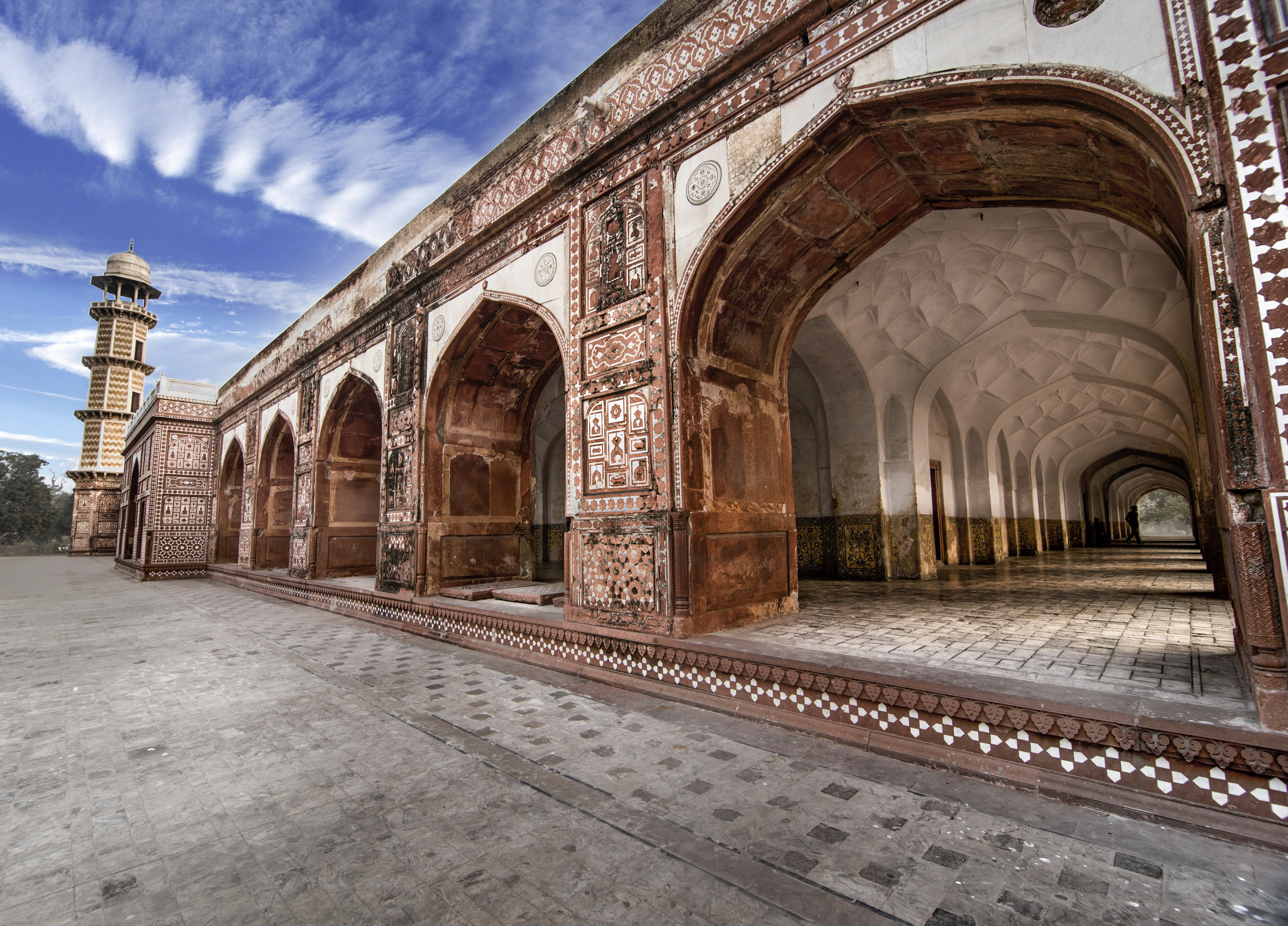 Jahangir’s Tomb and compound This is a photo of a monument in Pakistan identified as the PB-64